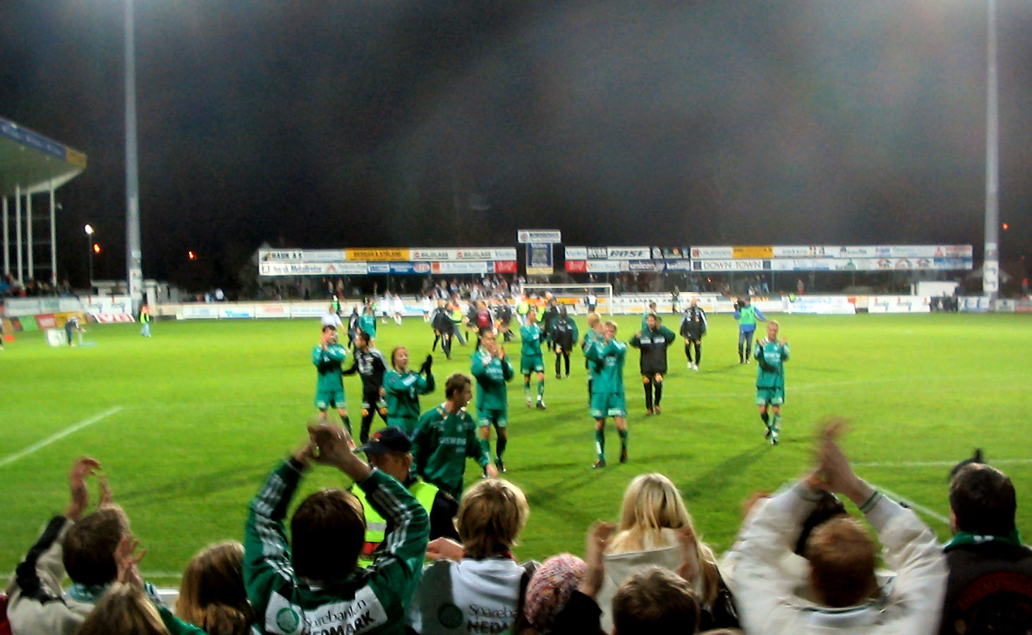 Players on the Norwegian Premier League team Hamarkameratene thanking their supporters after playing away against Odd Grenland in the last round of the 2004 season.